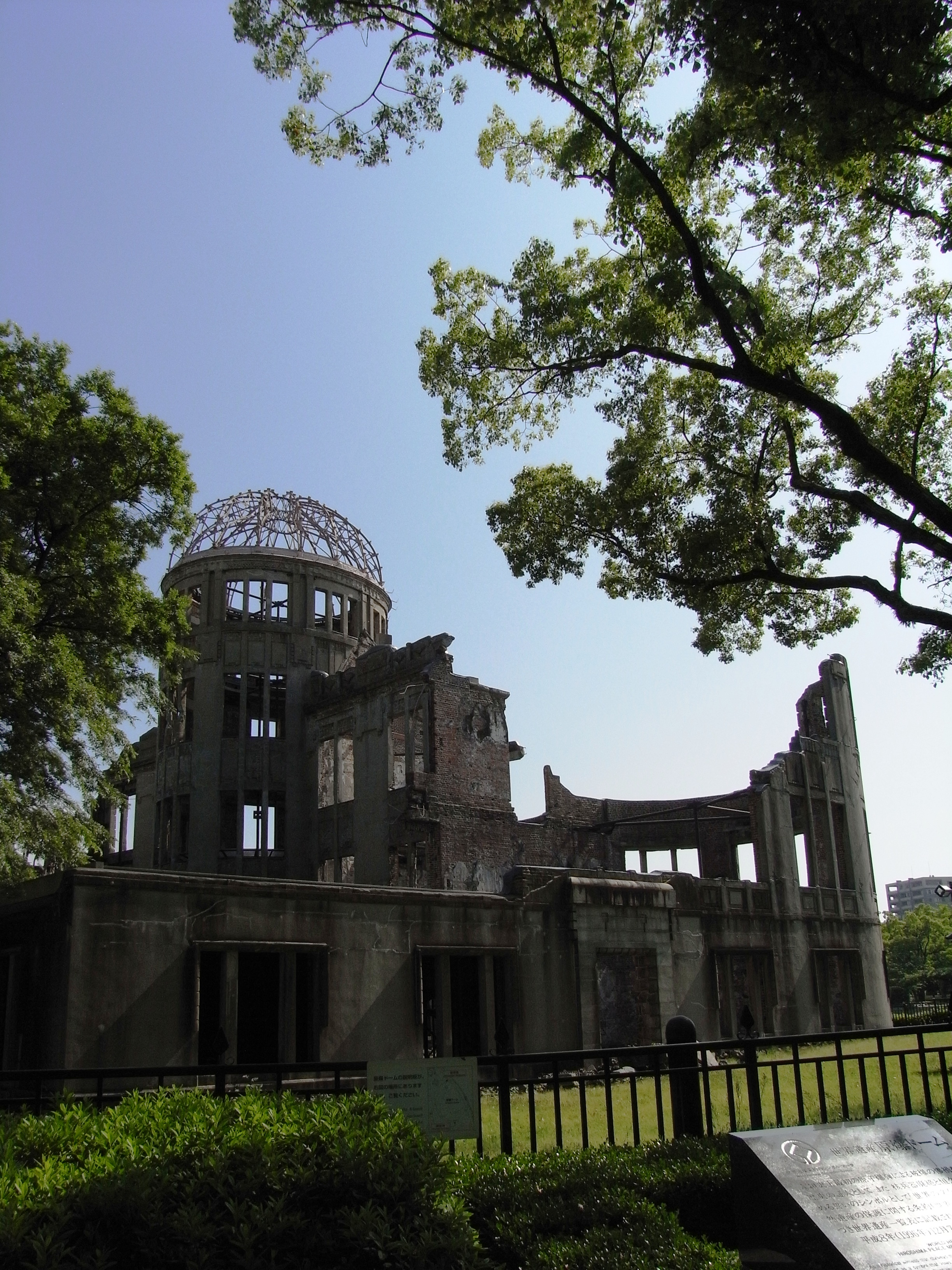 Hiroshima Peace Memorial(原爆ドーム)